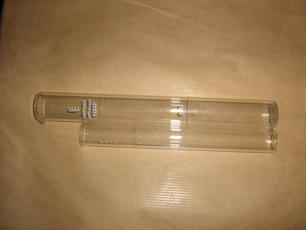 Nessler cylinders. 100 cm3 and 50 cm3.